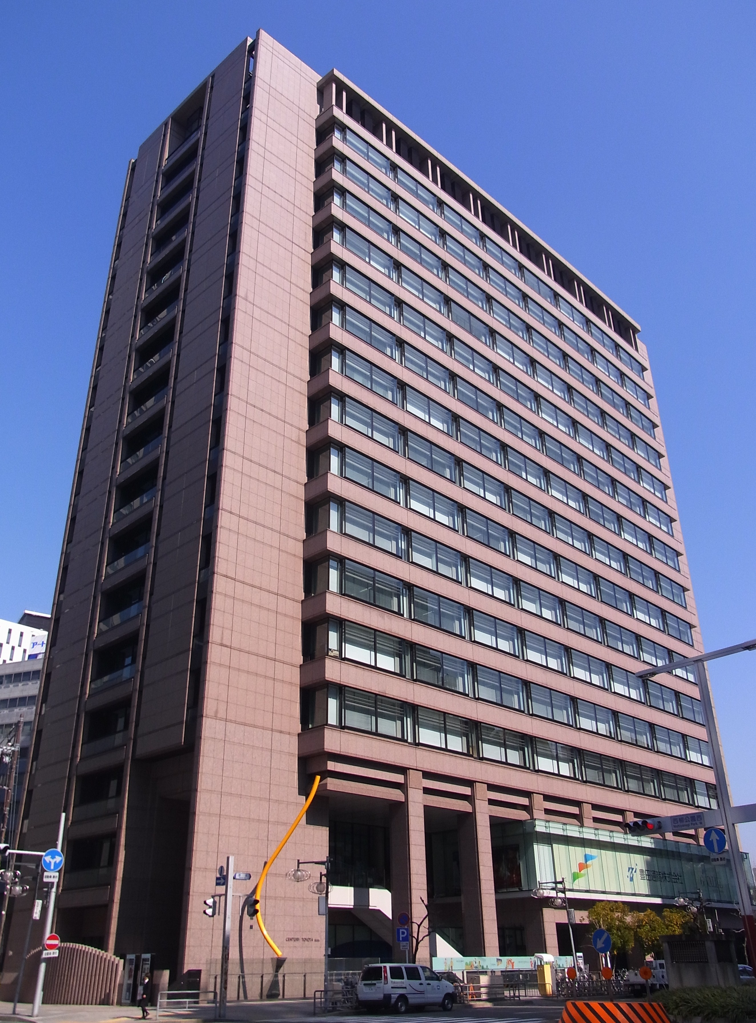 Century Toyota Building in Nakamura-ku Ward, Nagoya City.